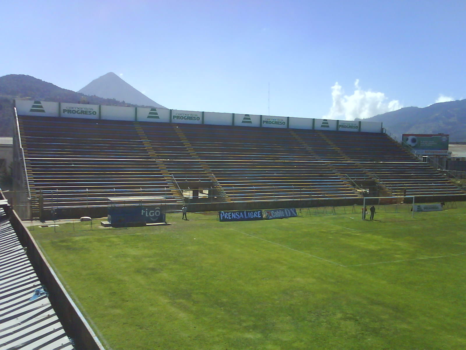 Mario camposeco stadium's south Stand